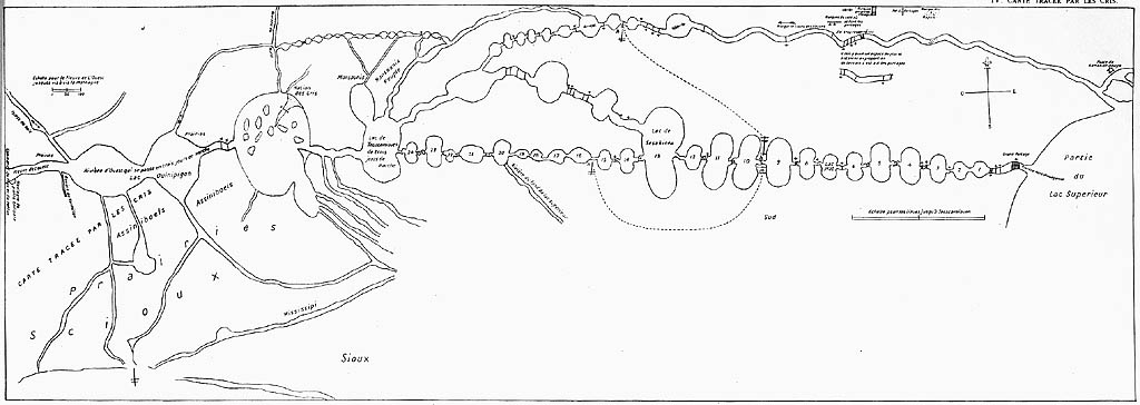 Map of Boundary Waters region, including Lake Superior, Kaministiquia River, Rainy Lake, Lake of the Woods, and Lake Winnipeg, drawn by Native guide Auchagah for La Vérendrye sometime around 1730.